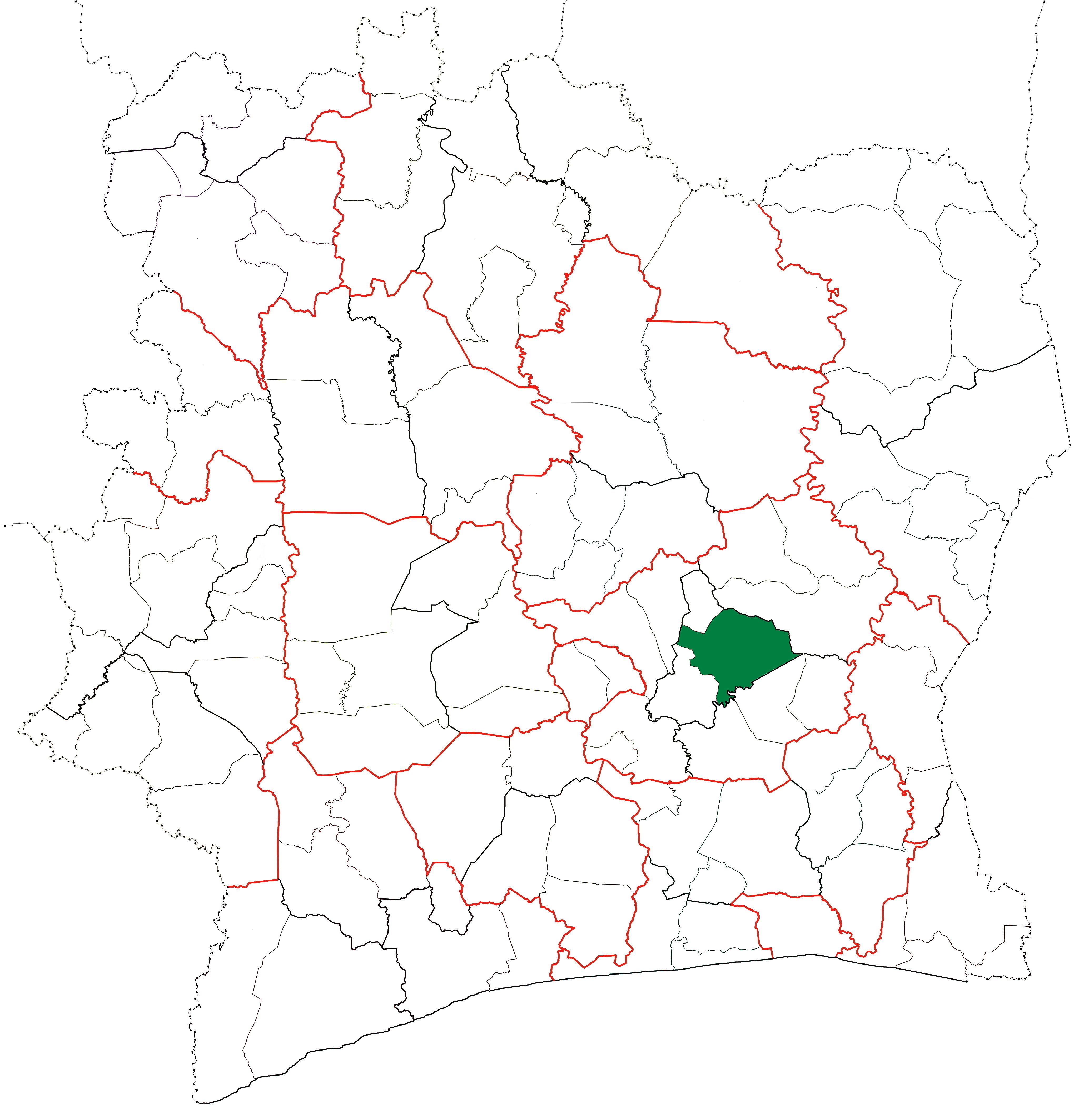 Locator map for Bocanda Department in Côte d'Ivoire.